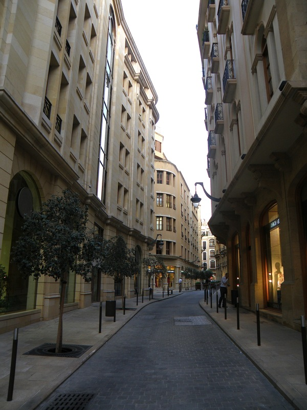 downtown beirut